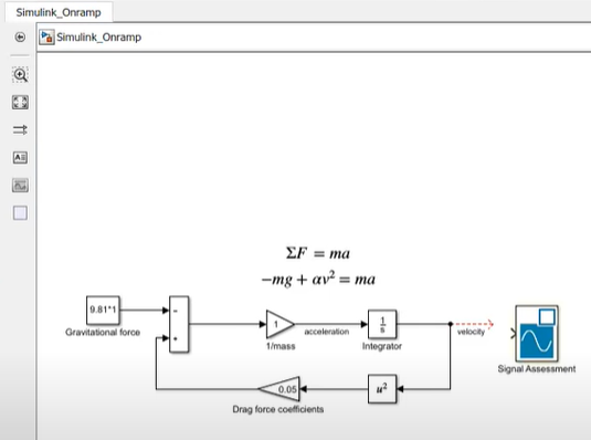 Simulink Onramp Screenshot